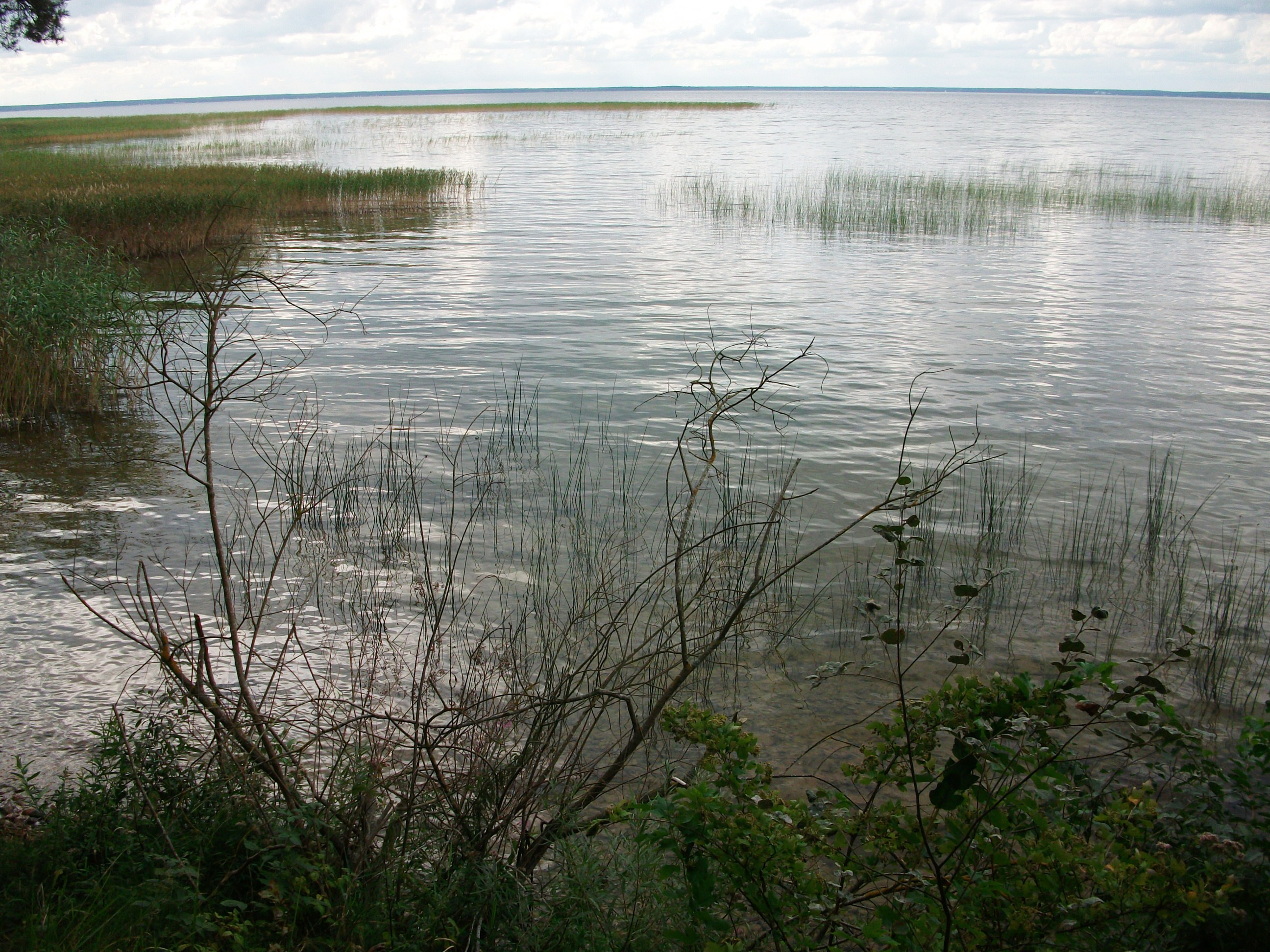 Narach Lake, Myadzyel district, Belarus